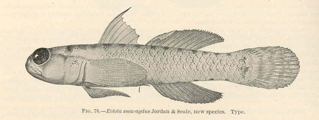 Eviota smaragdus Jordan & Seale, new species. Type Subject: Eviota Tag: Fish